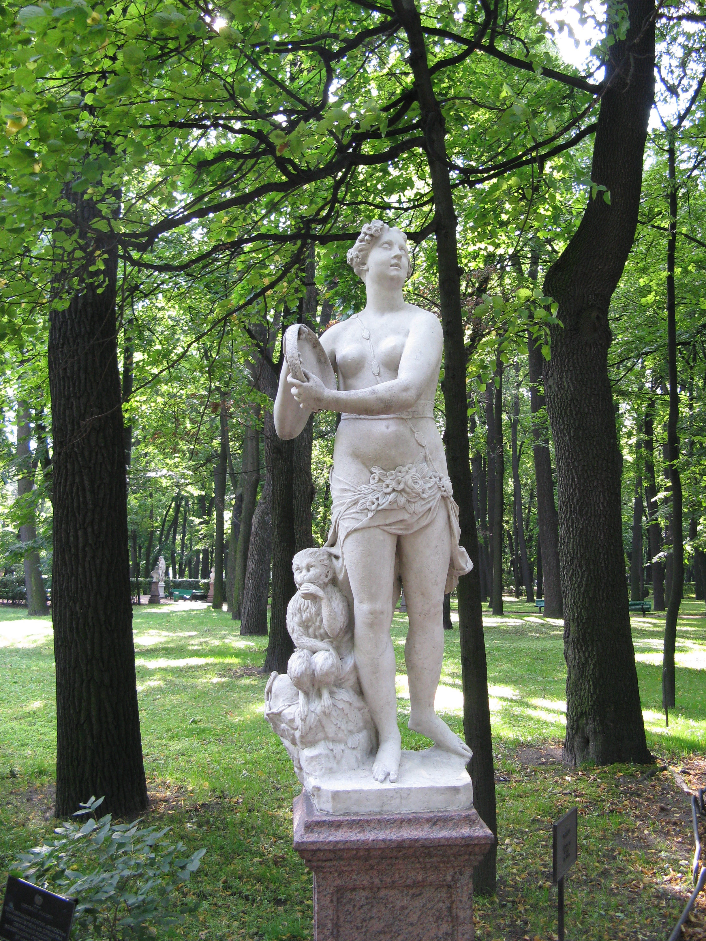 Youth by Antonio Tarsia, 1722 at Summer Garden